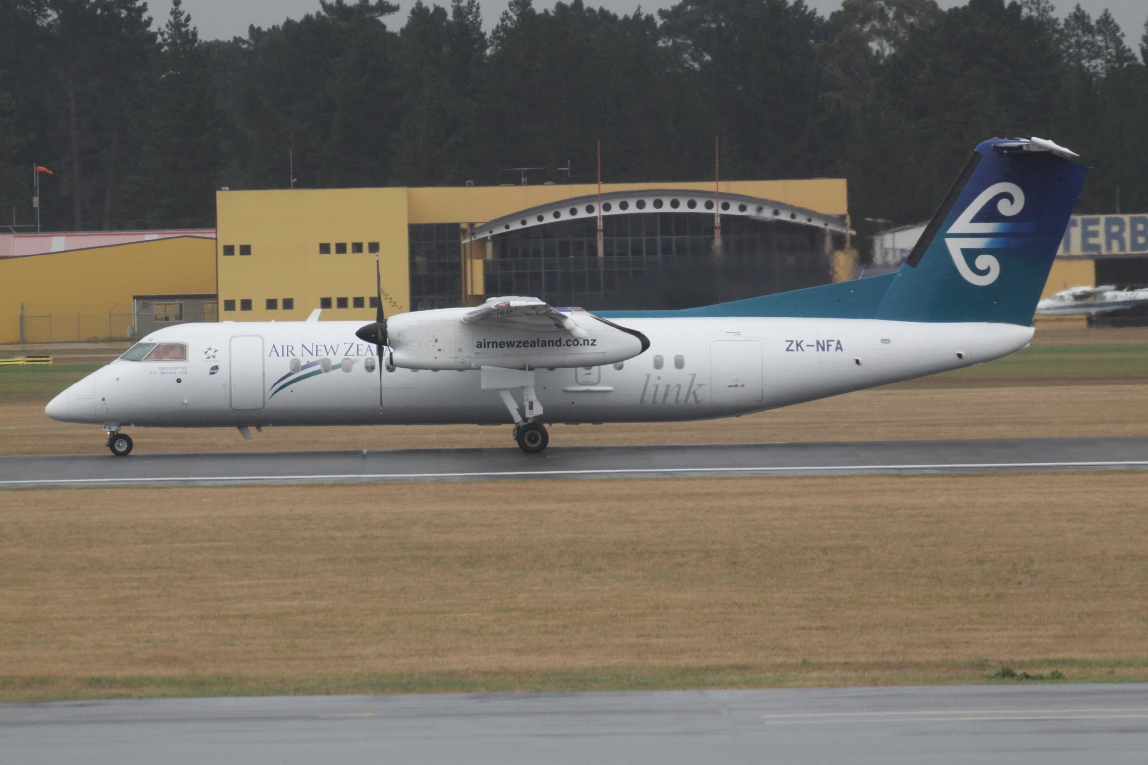 At Christchurch International